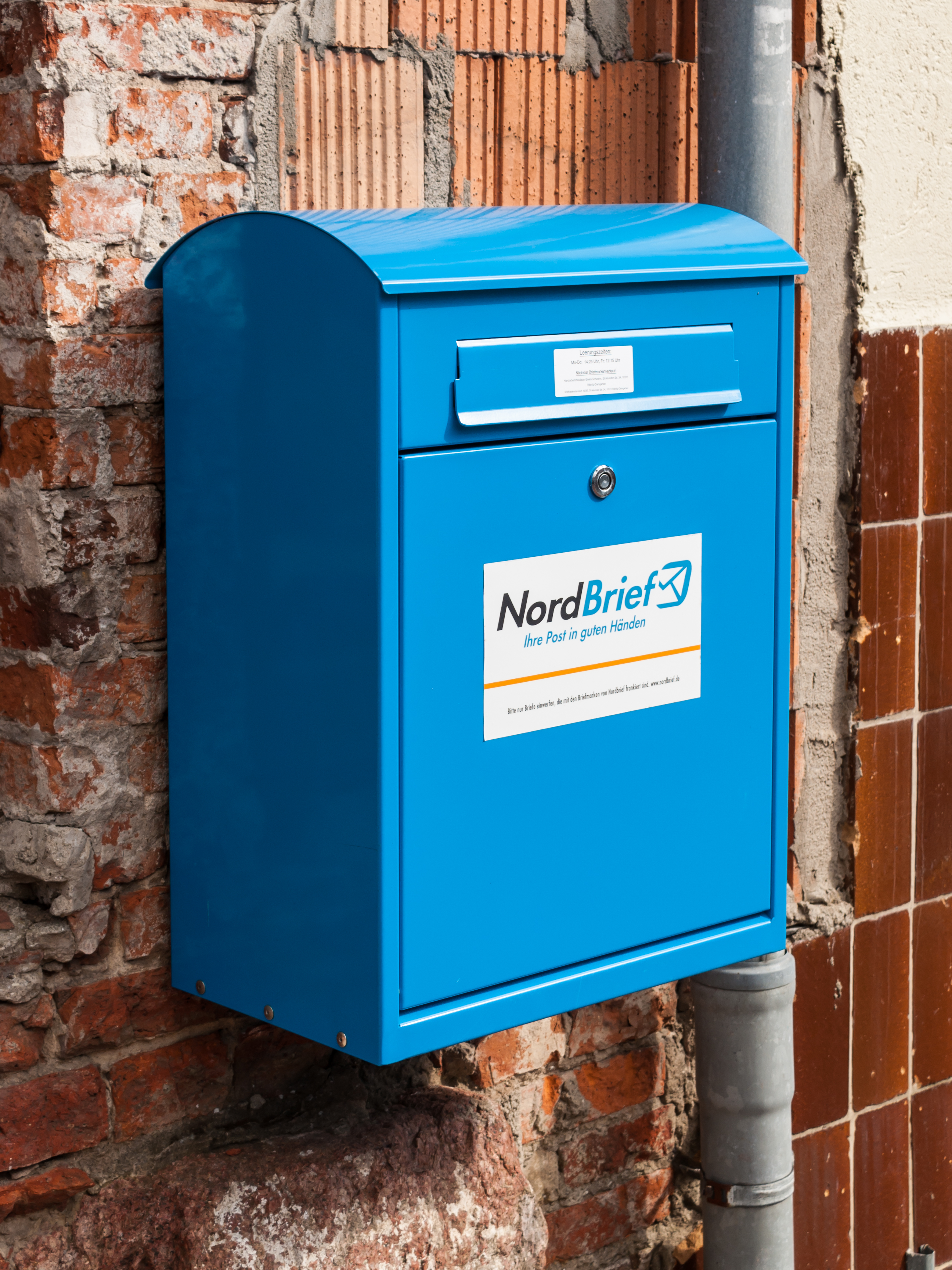 Post box of Nordbrief in Ribnitz-Damgarten